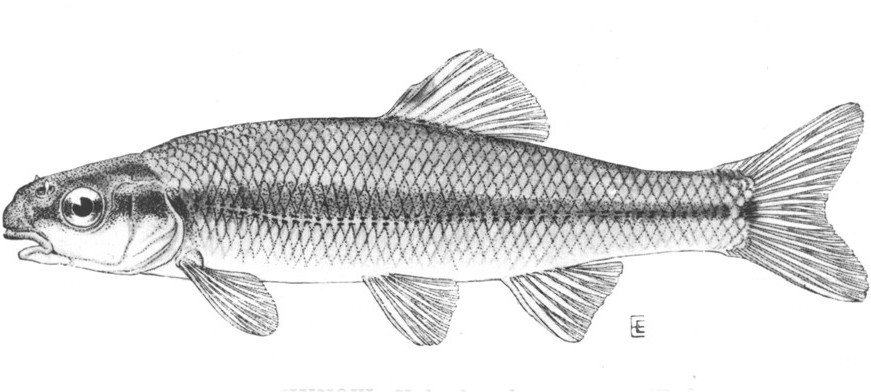 Bluntnose Minnow (Pimephales notatus)